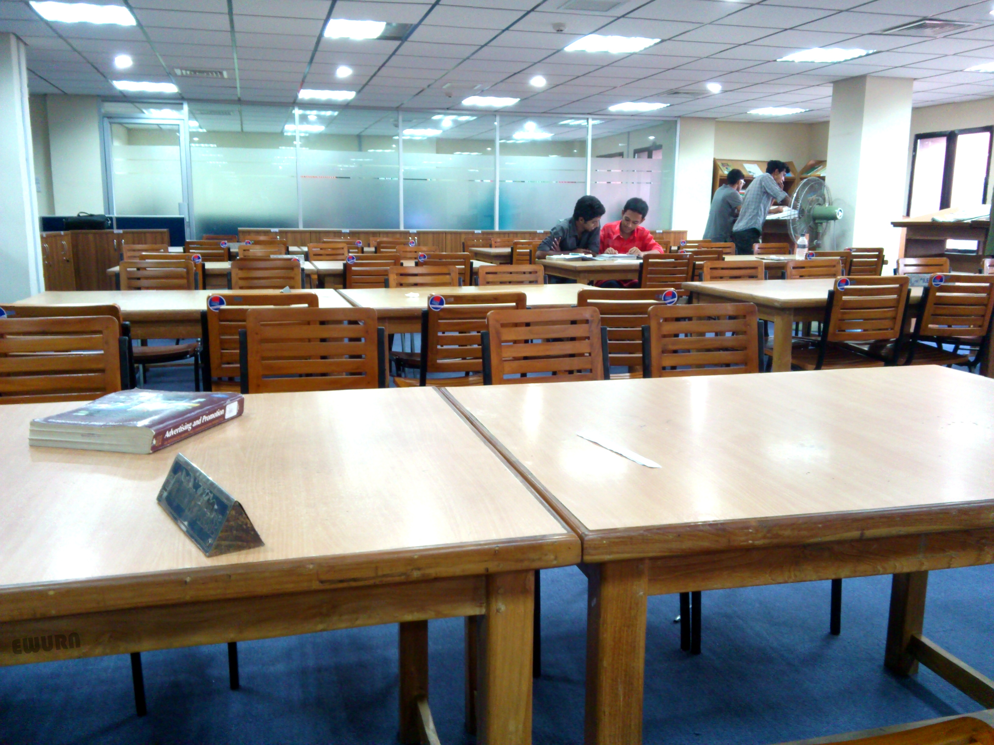 Inside view of circulation reading area of East West University Library.